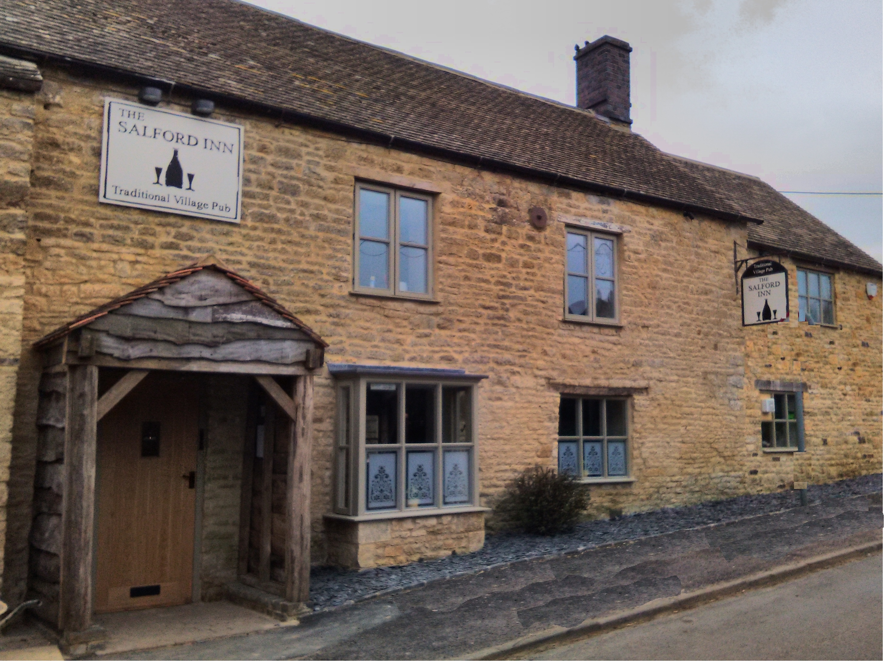 Bar, Restaurant, Accomadation